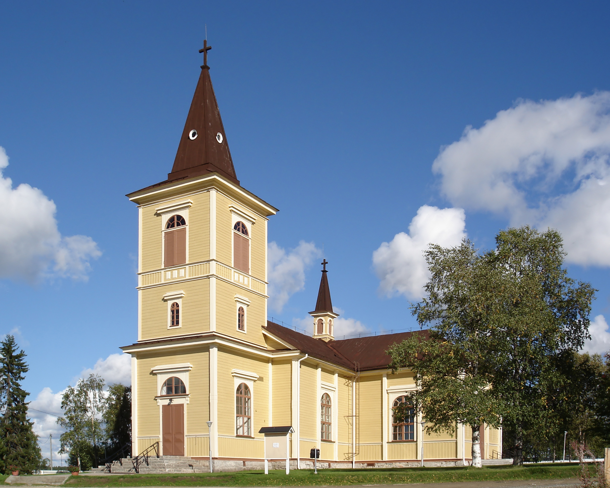 The church of Muonio, Finland. The church was designed by architect Charles Bassi and built in 1822. The bellfry was built 1884 and designed by architect Frans Wilhelm Lüchou.